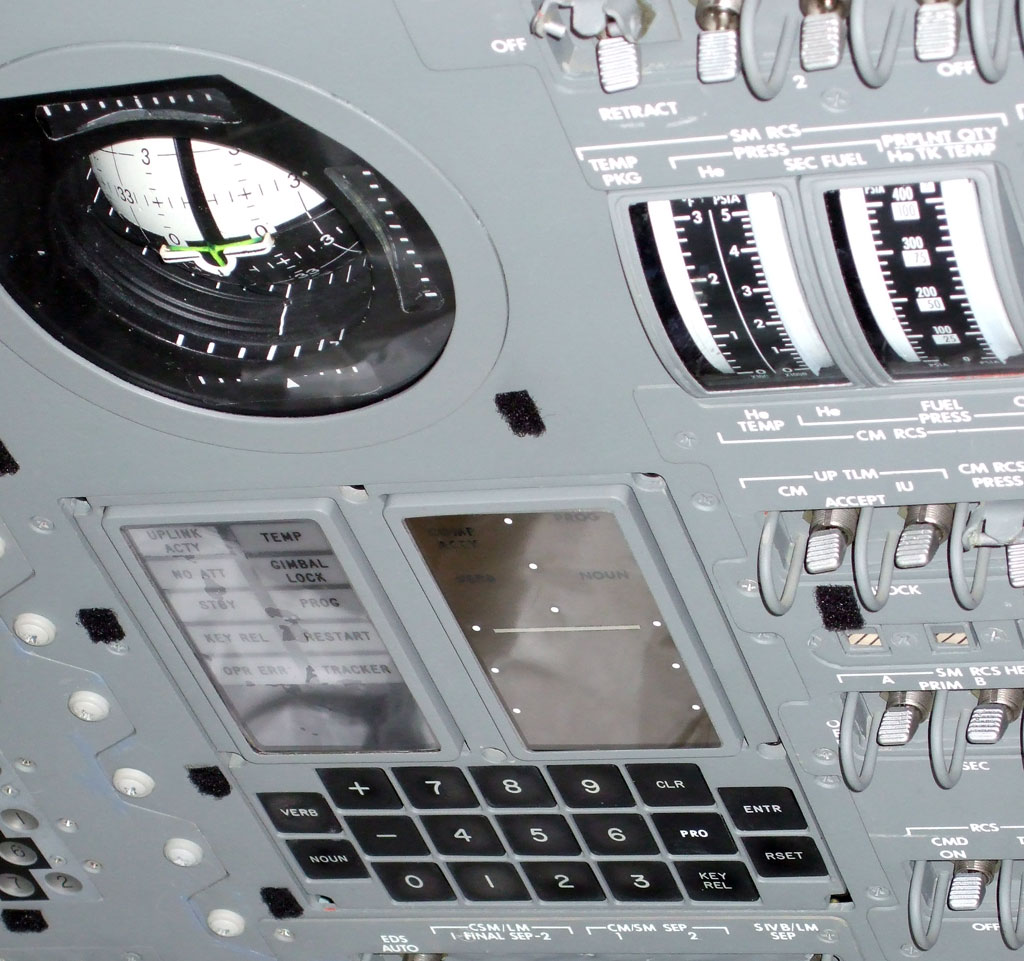 Die DSKY-Einheit des Apollo Guidance Computers (AGC) in der Armaturentafel des Kommandomoduls The DSKY-Unit of the Apollo Guidance Computer (AGC) mounted on the control panel of the command module (CM). Klawiatura i wyświetlacz (DSKY) komputera modułu dowodzenia ang. Command Module Computer (CMC) zamontowany na panelu głównym.